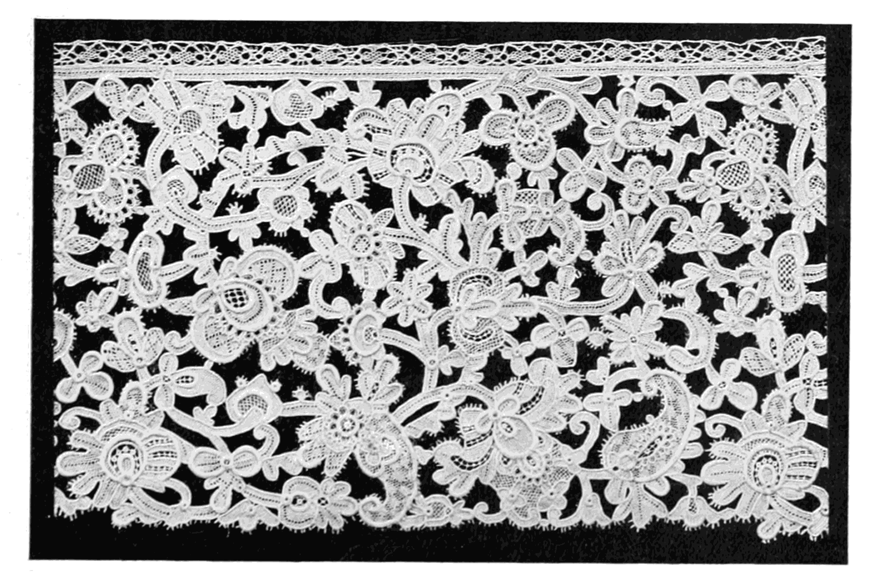 "Real Point de Venise."